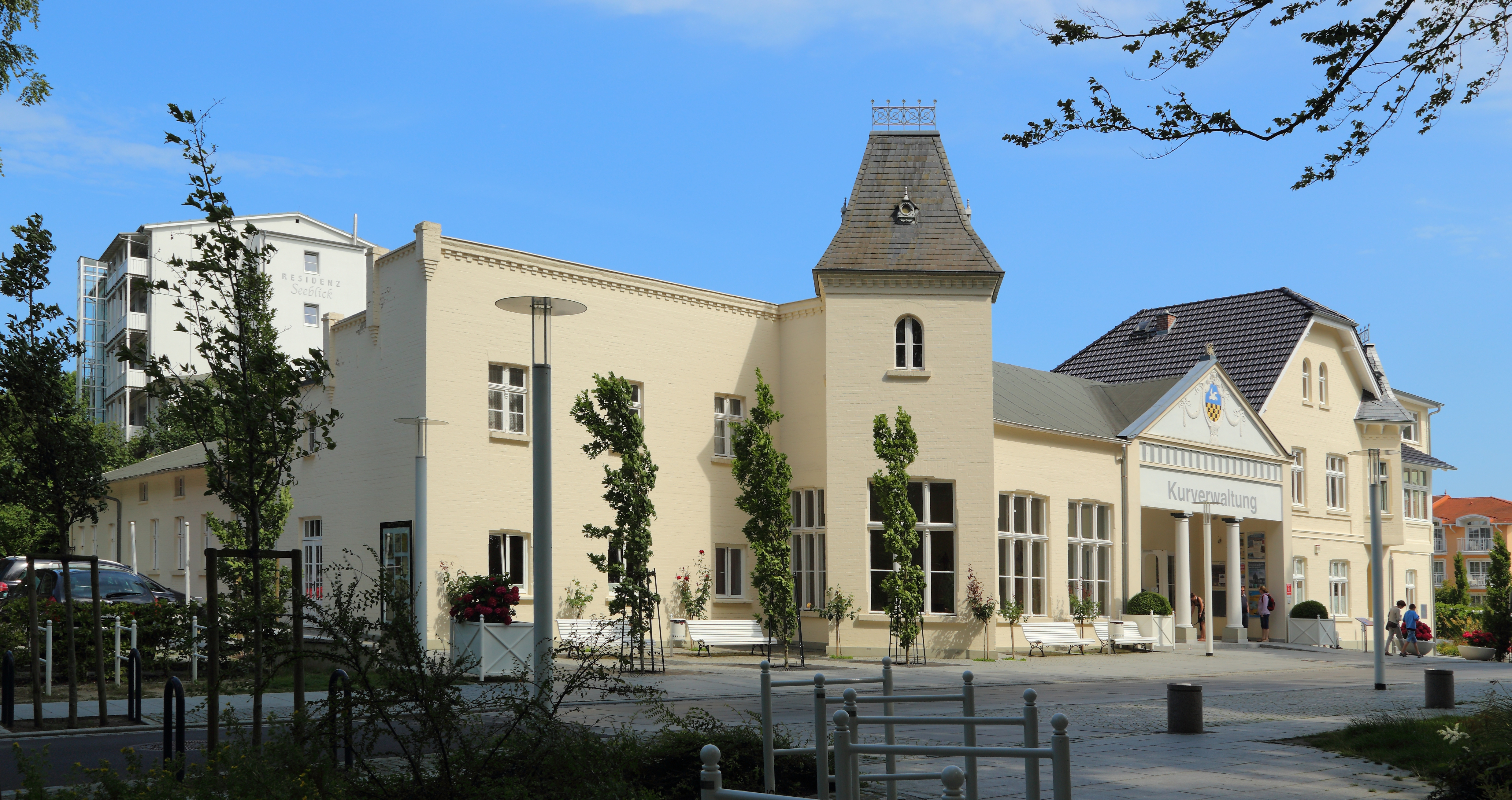 Sellin Thermal Bath (Warmbad Sellin), 4 Thermal Bath Street (Warmbadstraße 4) in Sellin, Landkreis Vorpommern-Rügen, Mecklenburg-Vorpommern, Germany. The building, now seat of the local spa's administration (Kurverwaltung), is a listed cultural heritage monument.